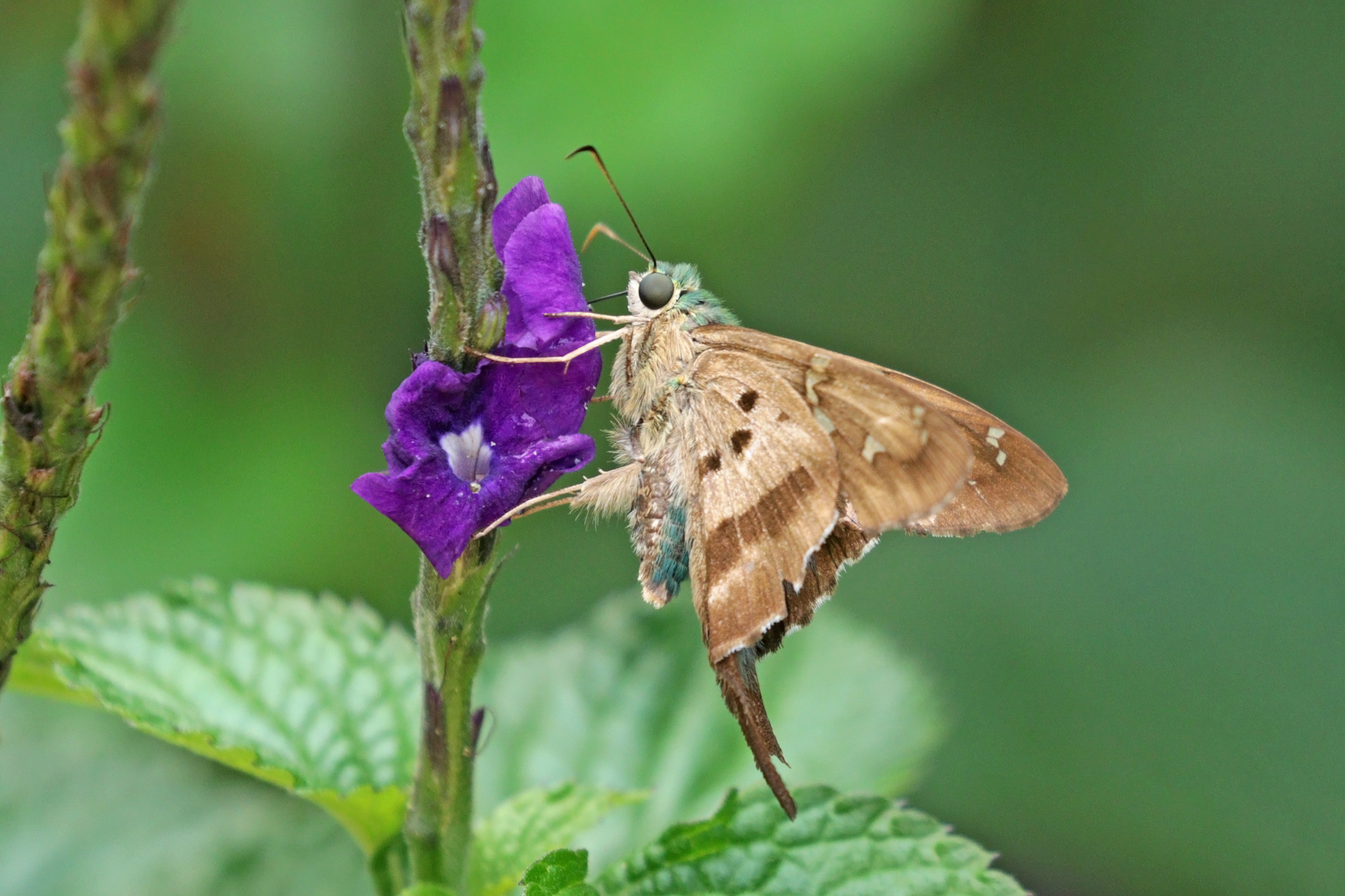 Esmeralda longtail (Urbanus esmeraldus), Alajuela, Costa Rica